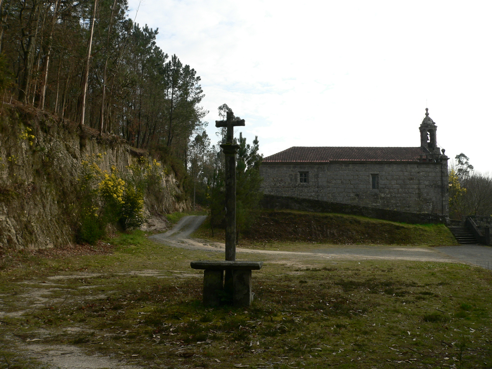 Parish church of San Cristovo de Tapia, Ames, A Coruña, Galicia, Spain.